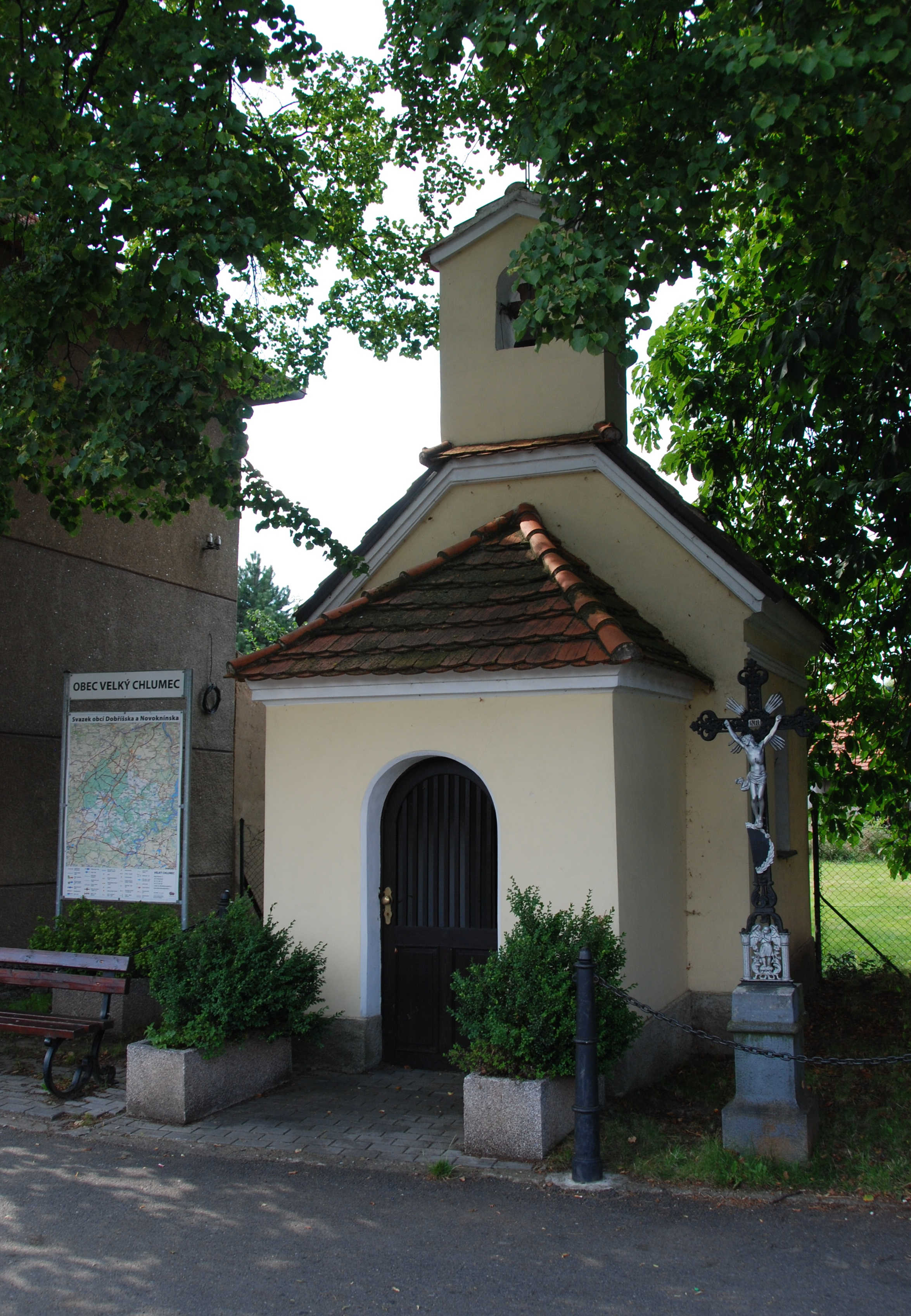 This photograph was taken within the scope of the second year of the 'Czech Municipalities Photographs' grant. Kaple